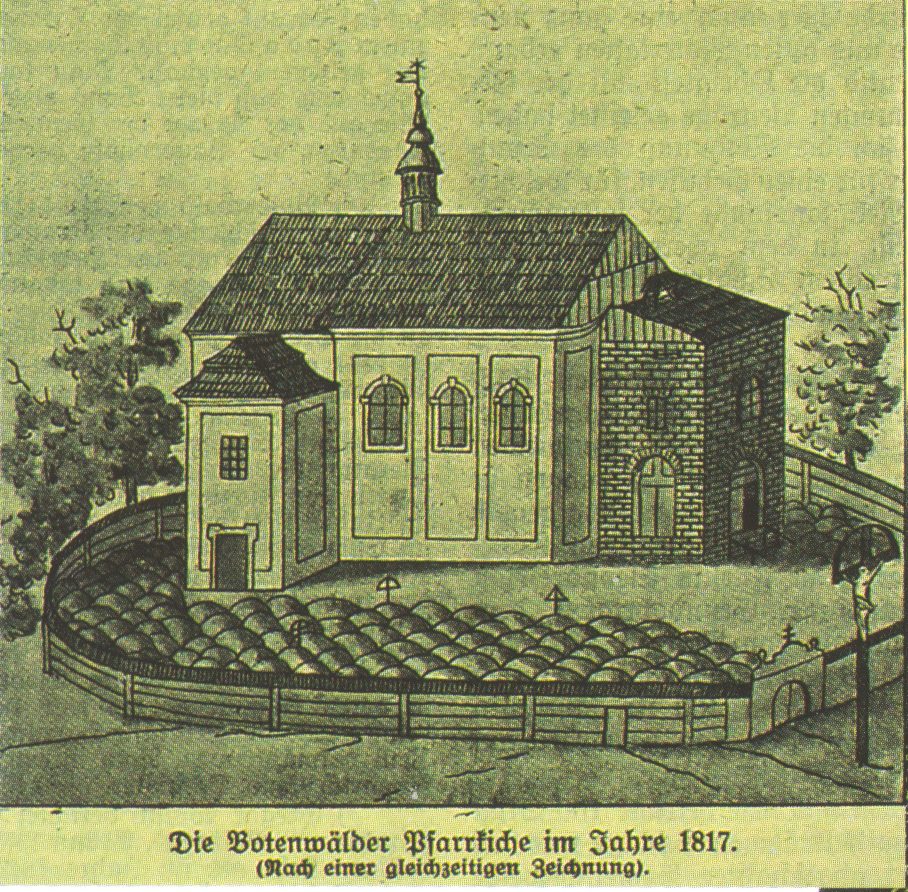 The All Saints' Church in (Studénka-)Butovice, drawing by Franz Kledensky from 1817